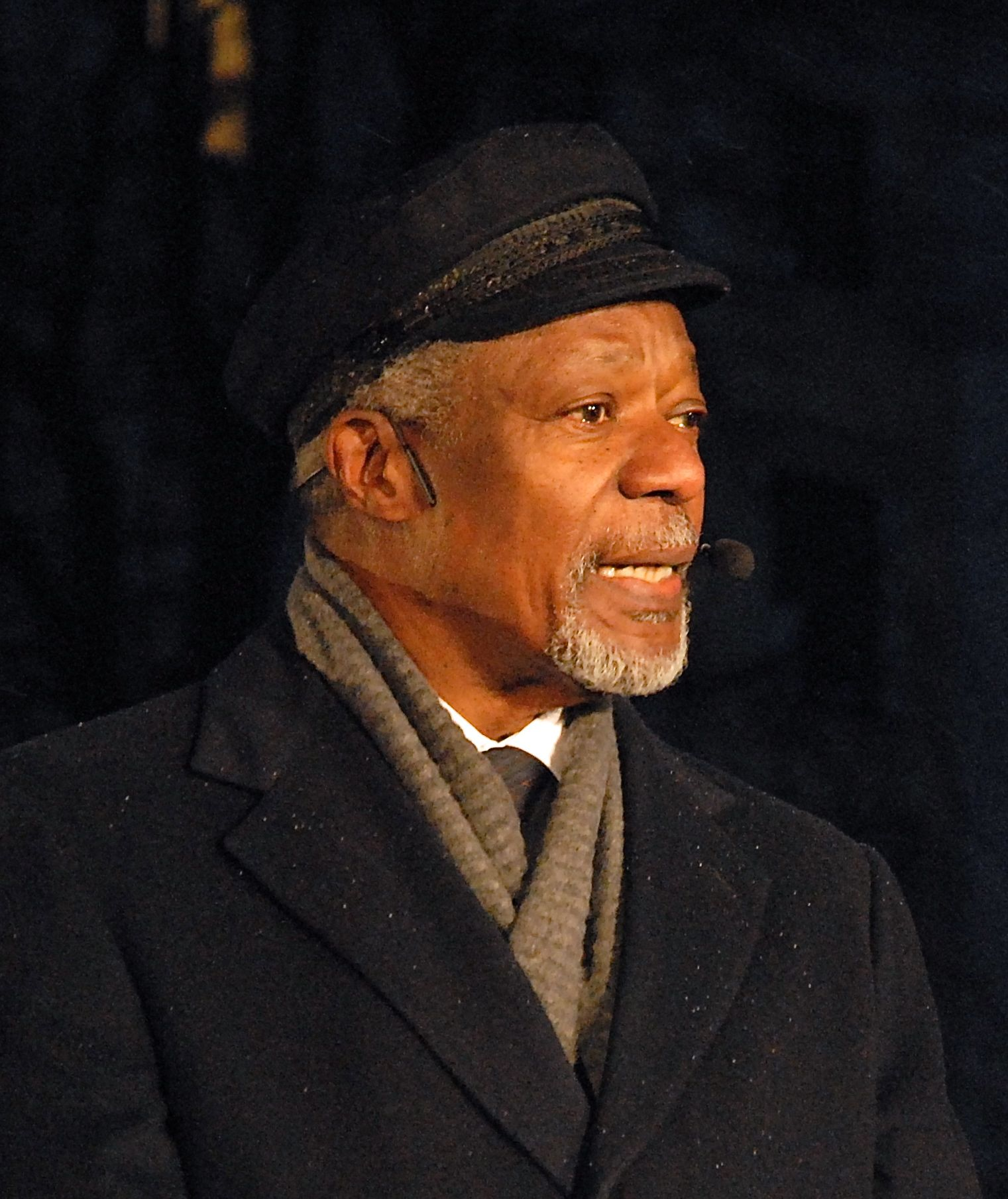 January 27 2012, Holocaust Remembrance Day. 100 years ago, Raoul Wallenberg was born. Memorial Ceremony at the Raoul Wallenberg Square in Stockholm with Holocaust survivors. Mr Eskil Franck, Director of the Living History Forum, Kofi Annan and Per Westerberg. Participants: Crown Princess Victoria and Prince Daniel, Nina Lagergren, Georg Klein and Hédi Fried, among others.